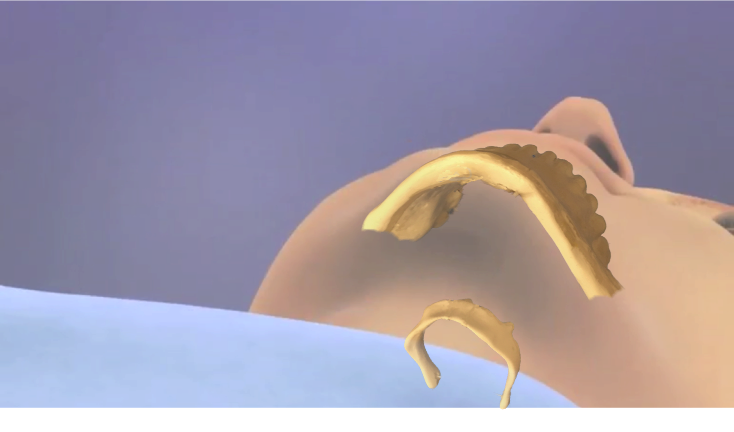 Hyoid suspension with base hyoid position and mandible